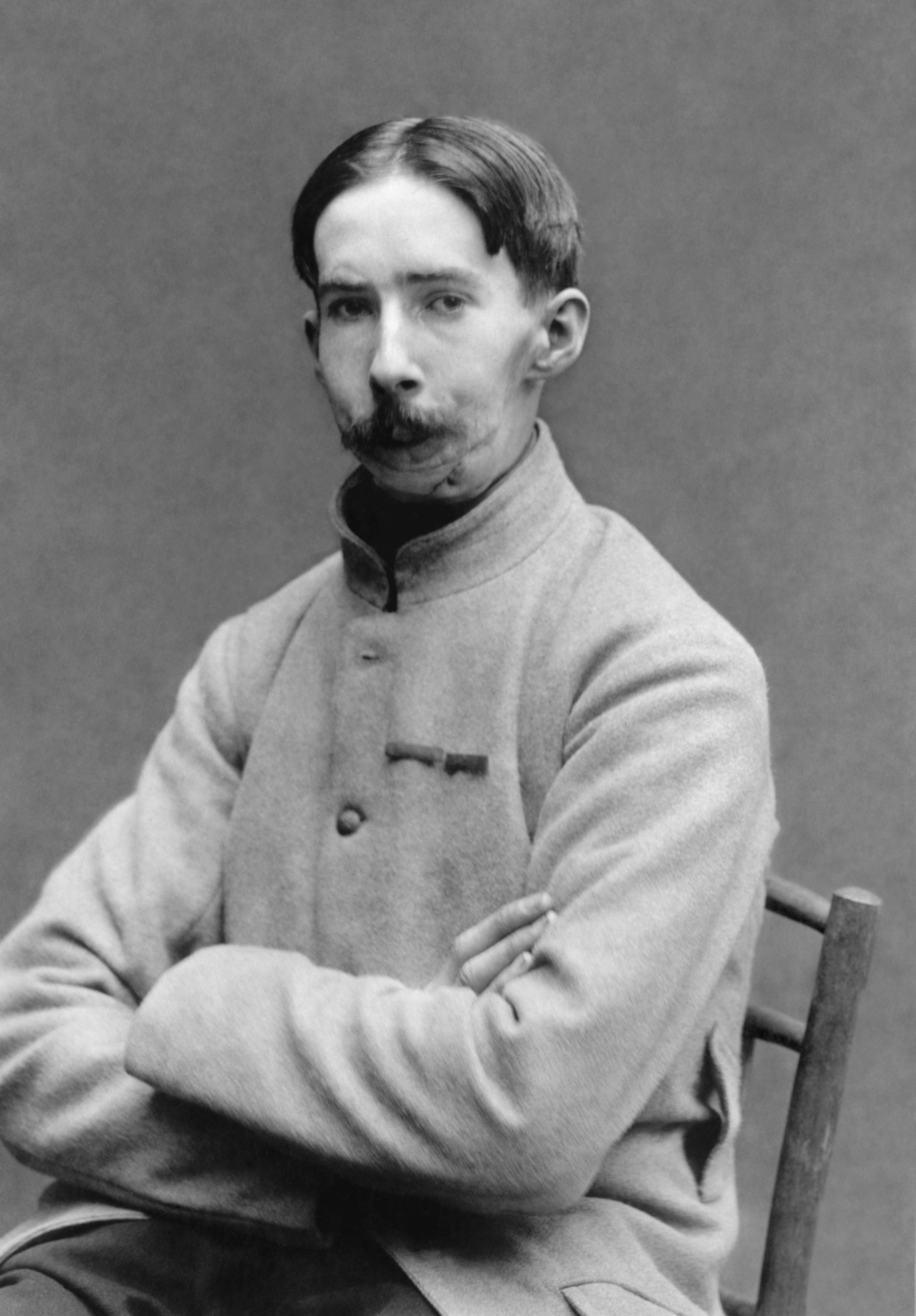 "French mutilé before being fitted with a mask by Mrs. Anna Coleman Ladd, of the Americian Red Cross, thus making him able to appear in public unnoticed"